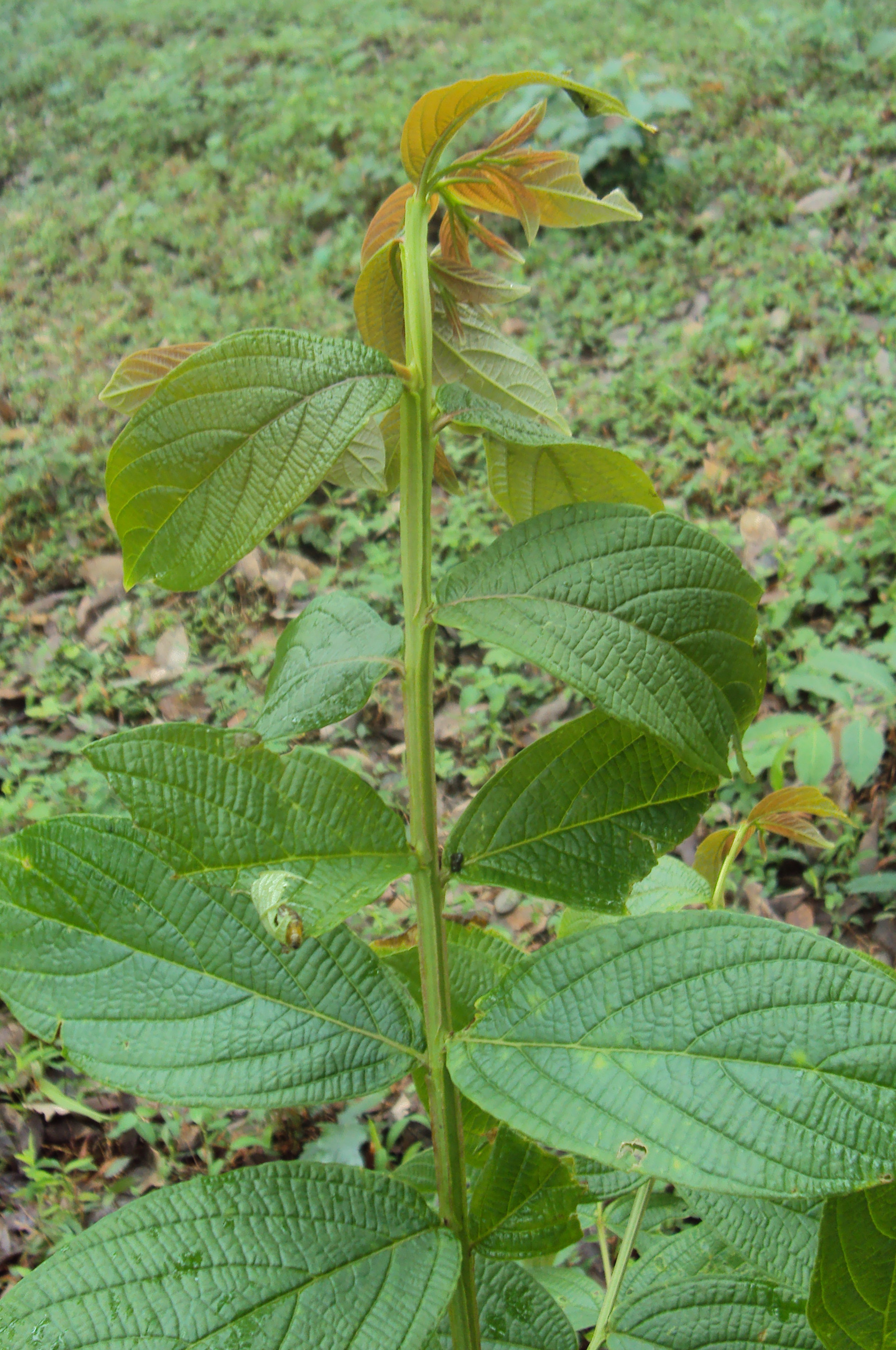 വെൺതേക്ക് - Lagerstroemia microcarpa